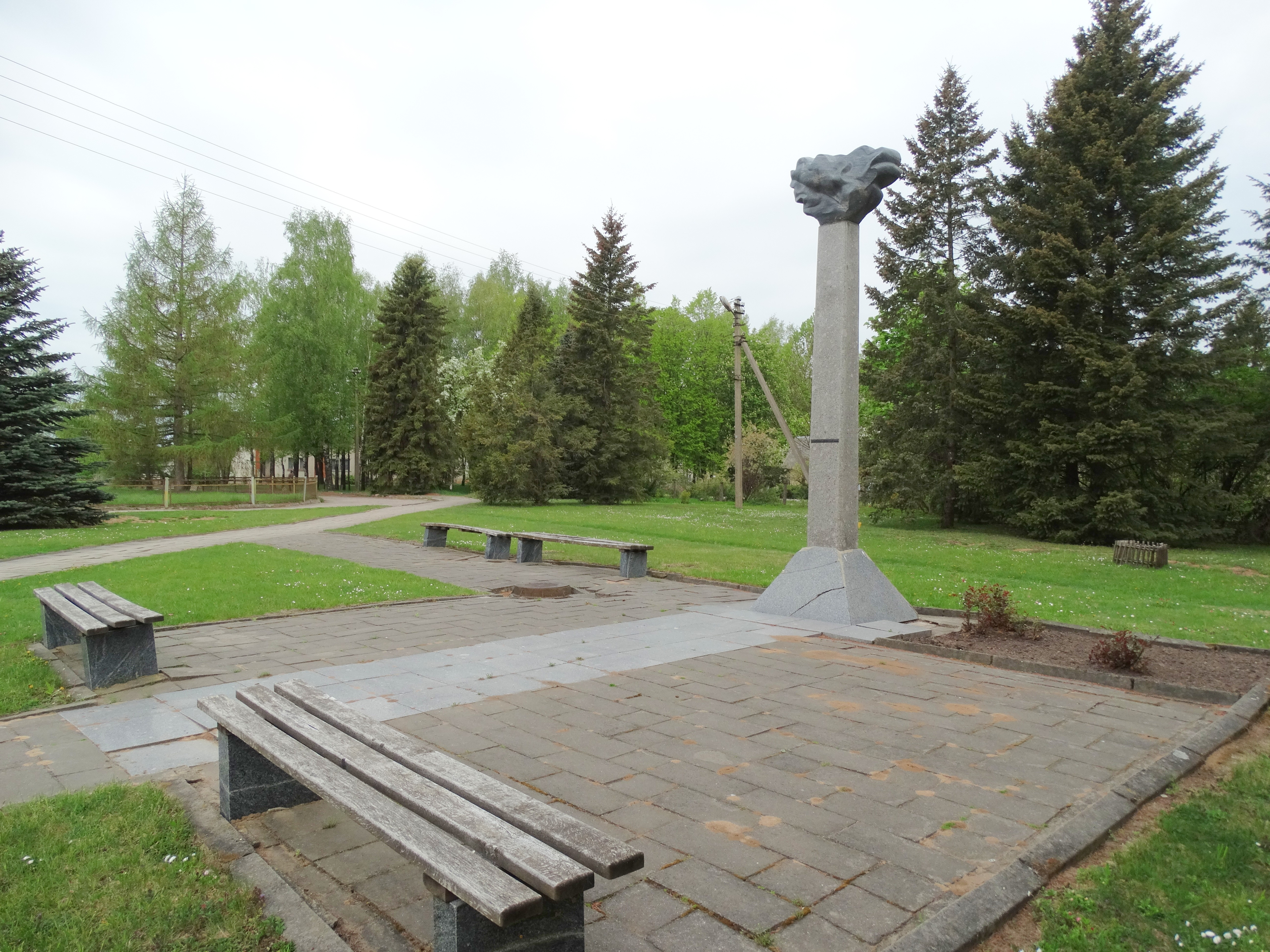 Plaučiškiai, Pakruojis District, Lithuania